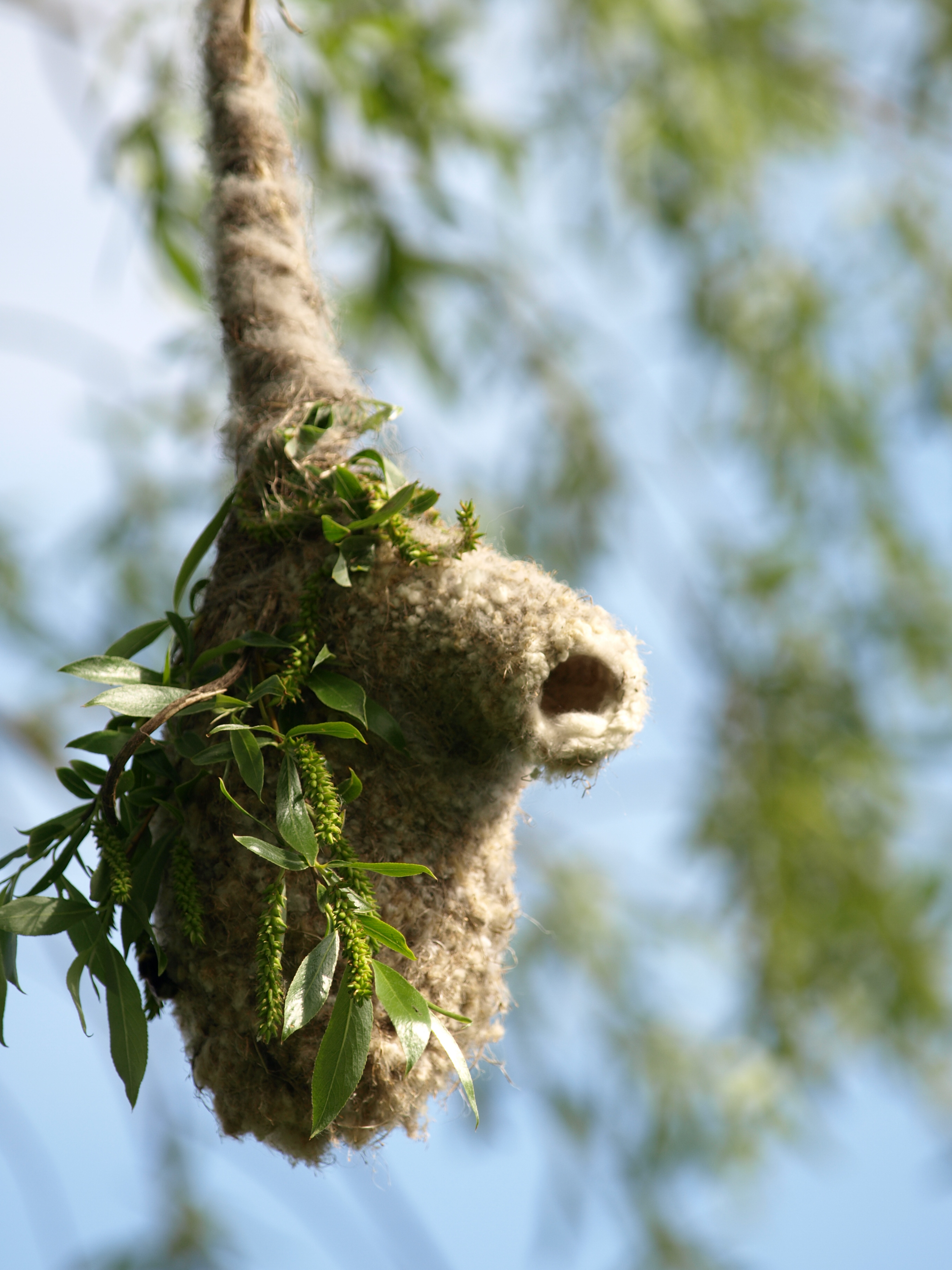 Nest of Remiz pendulinis Sopot, Poland